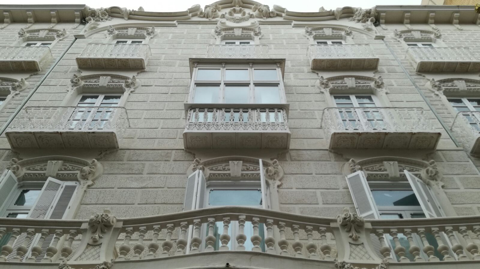 Fachada principal Casa Dorda